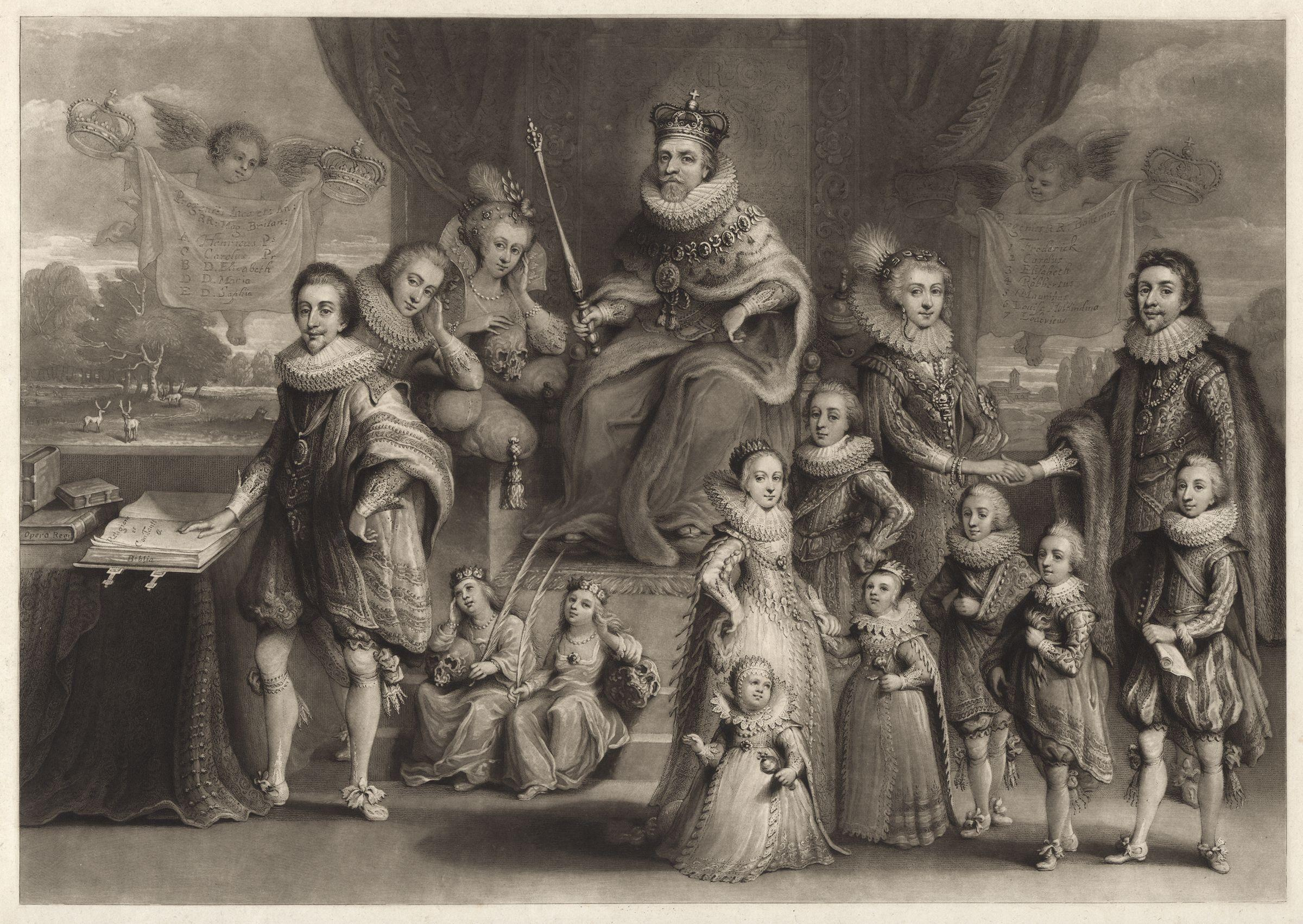 James I and his royal progeny, by Willem van de Passe (died 1642), published 1814. All images in this batch have been confirmed as author died before 1939 according to the official death date listed by the NPG.